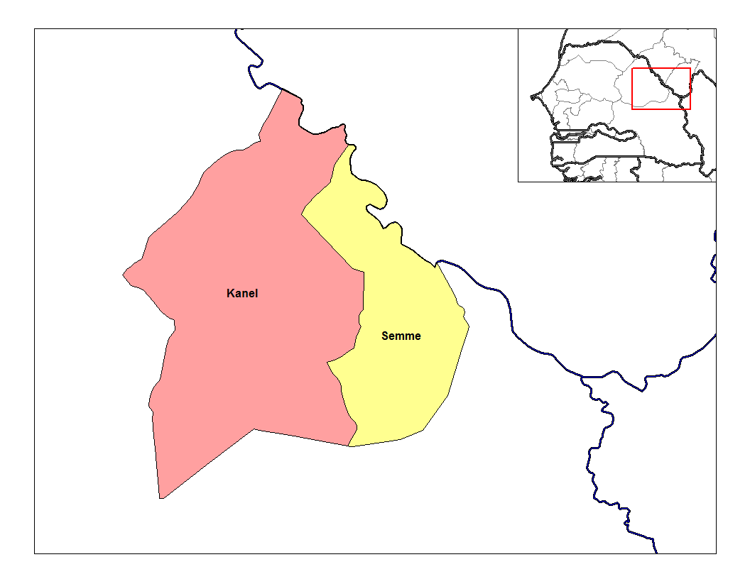 Map of the arrondissements of Kanel department in Senegal.